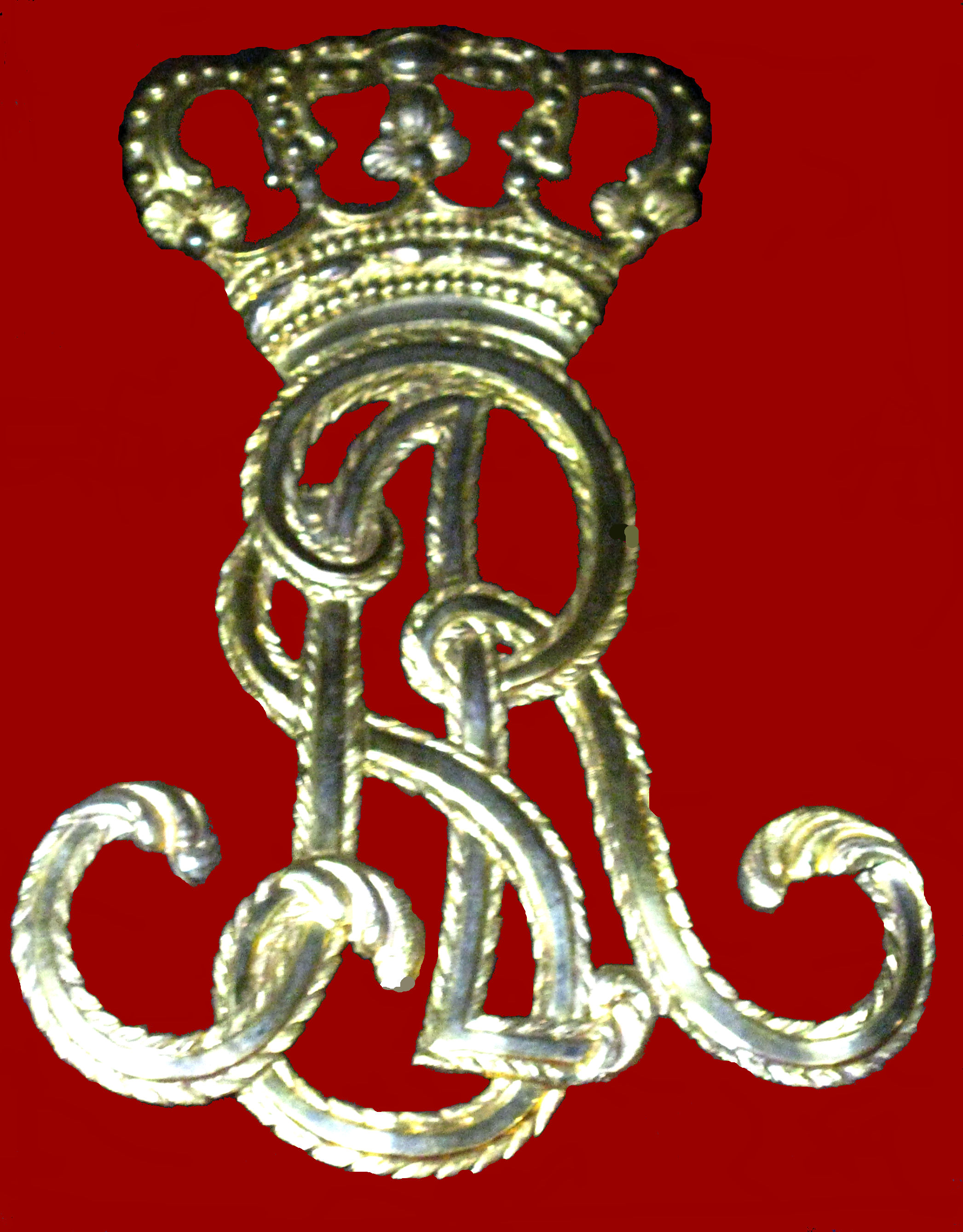 Royal Monogram of King Stanislaus II Augustus of Poland from Shabrack of the General of Lithuanian Army